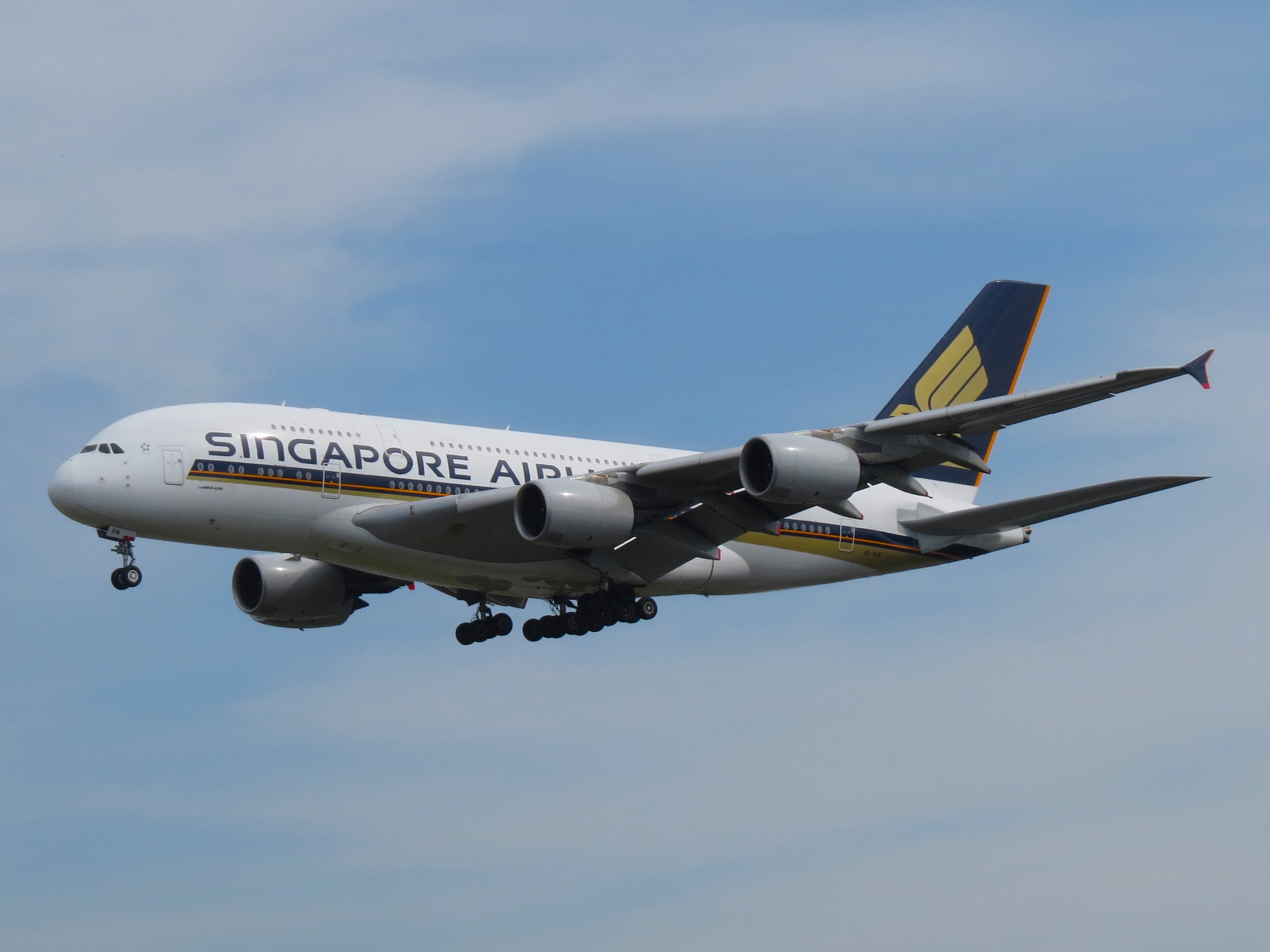 Singapore Airlines Airbus A380-841 at Frankfurt Airport